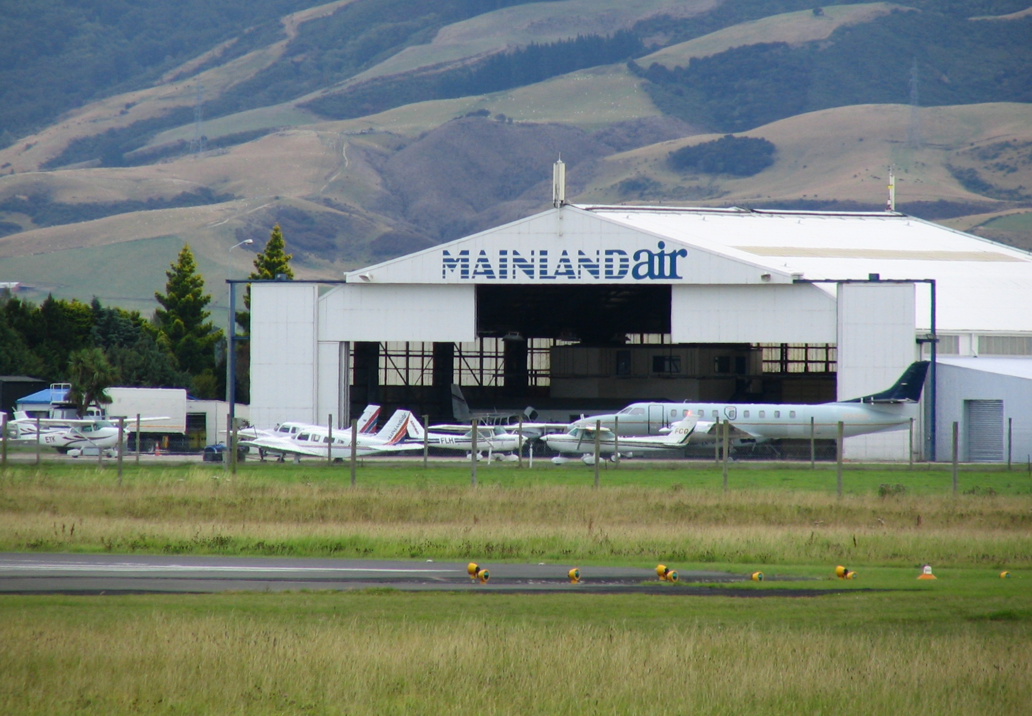 Mainland Air hangar at Dunedin International Airport, New Zealand.